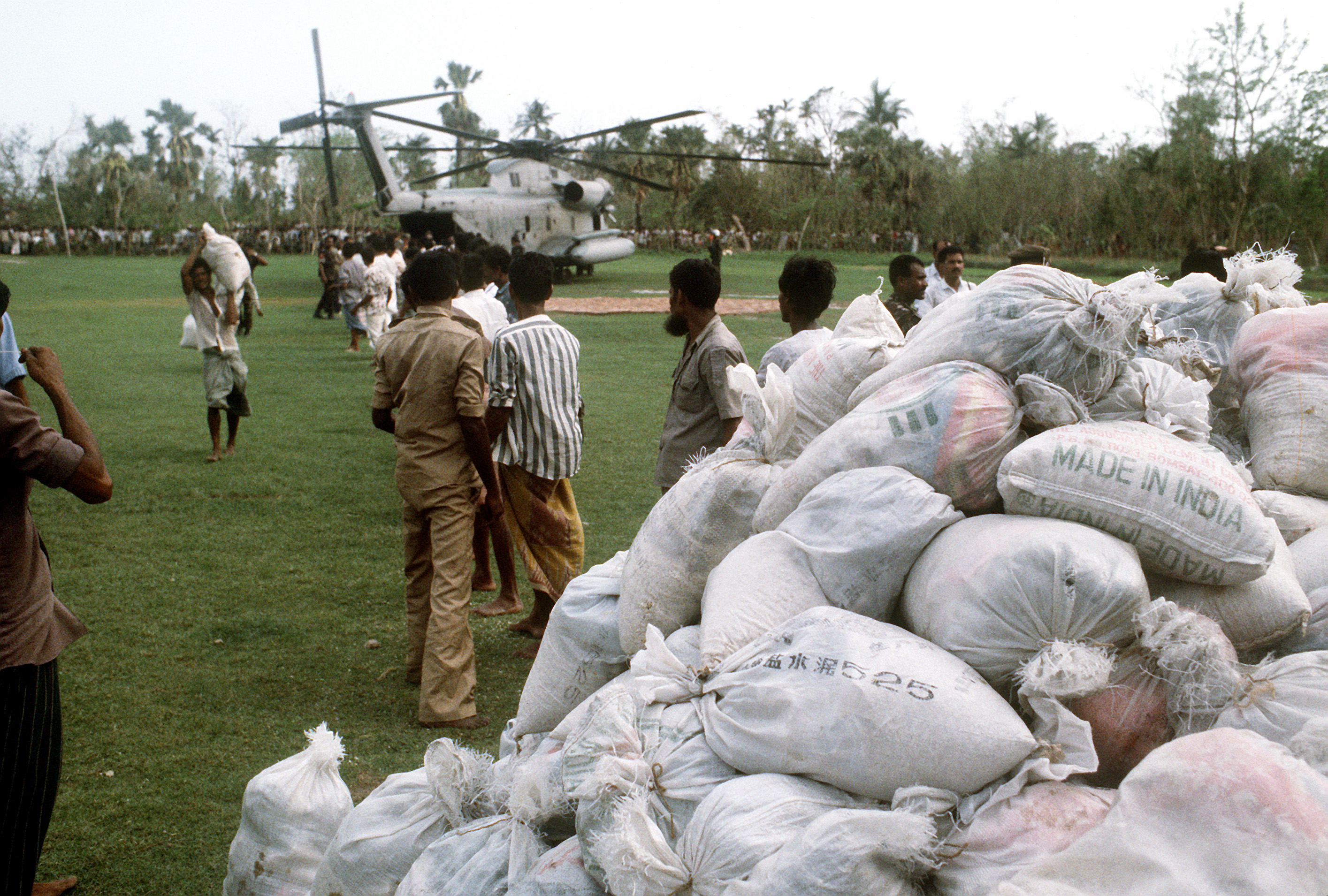 Bangladeshi civilians and US military personnel unloading aid from a CH-53D from Marine Heavy Helicopter Squadron (HMH)-772, Det A, Sea Stallion as part of Operation Sea Angel, in the wake of the 1991 Bangladesh cyclone